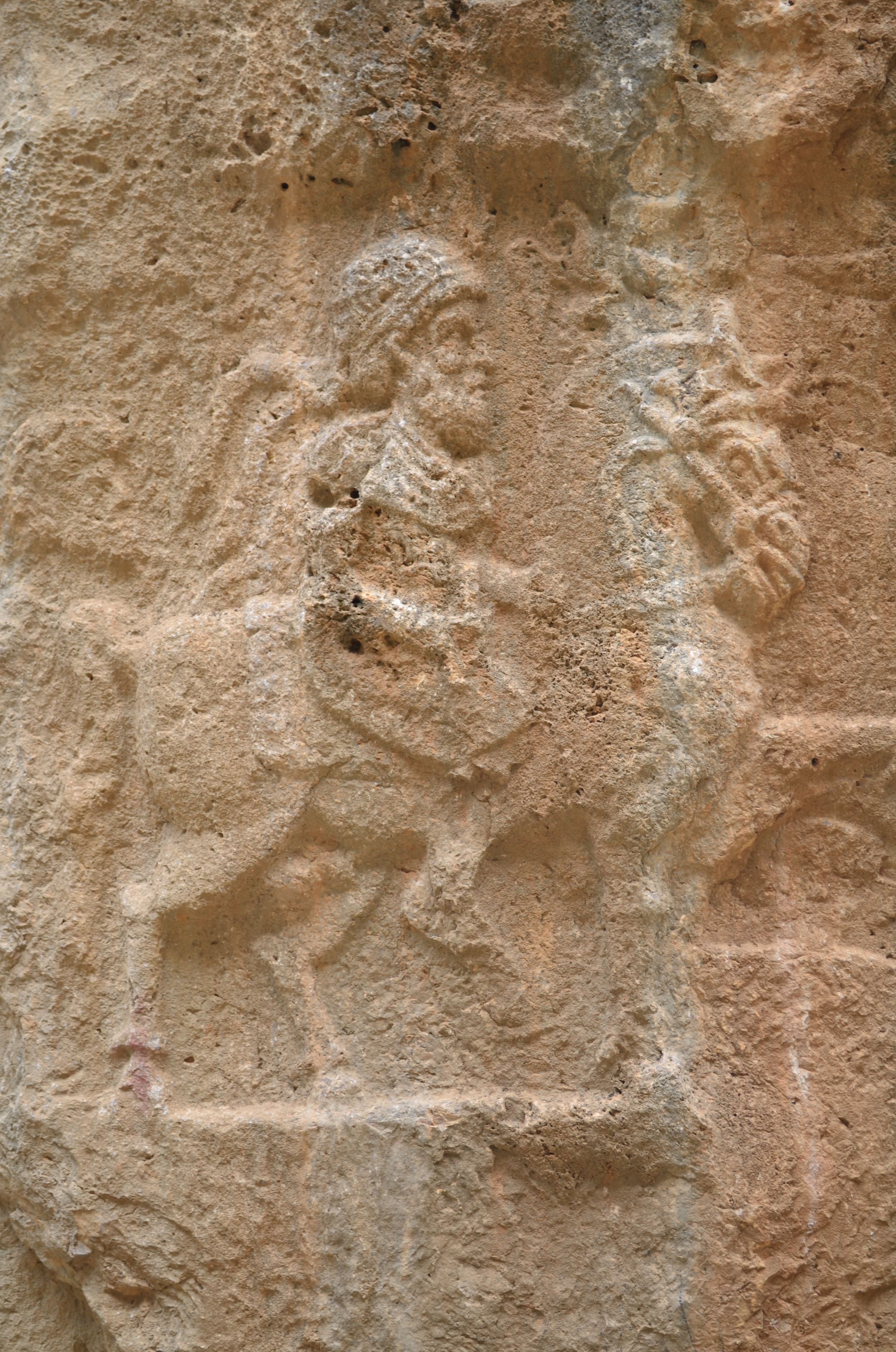 Khong Azhdar